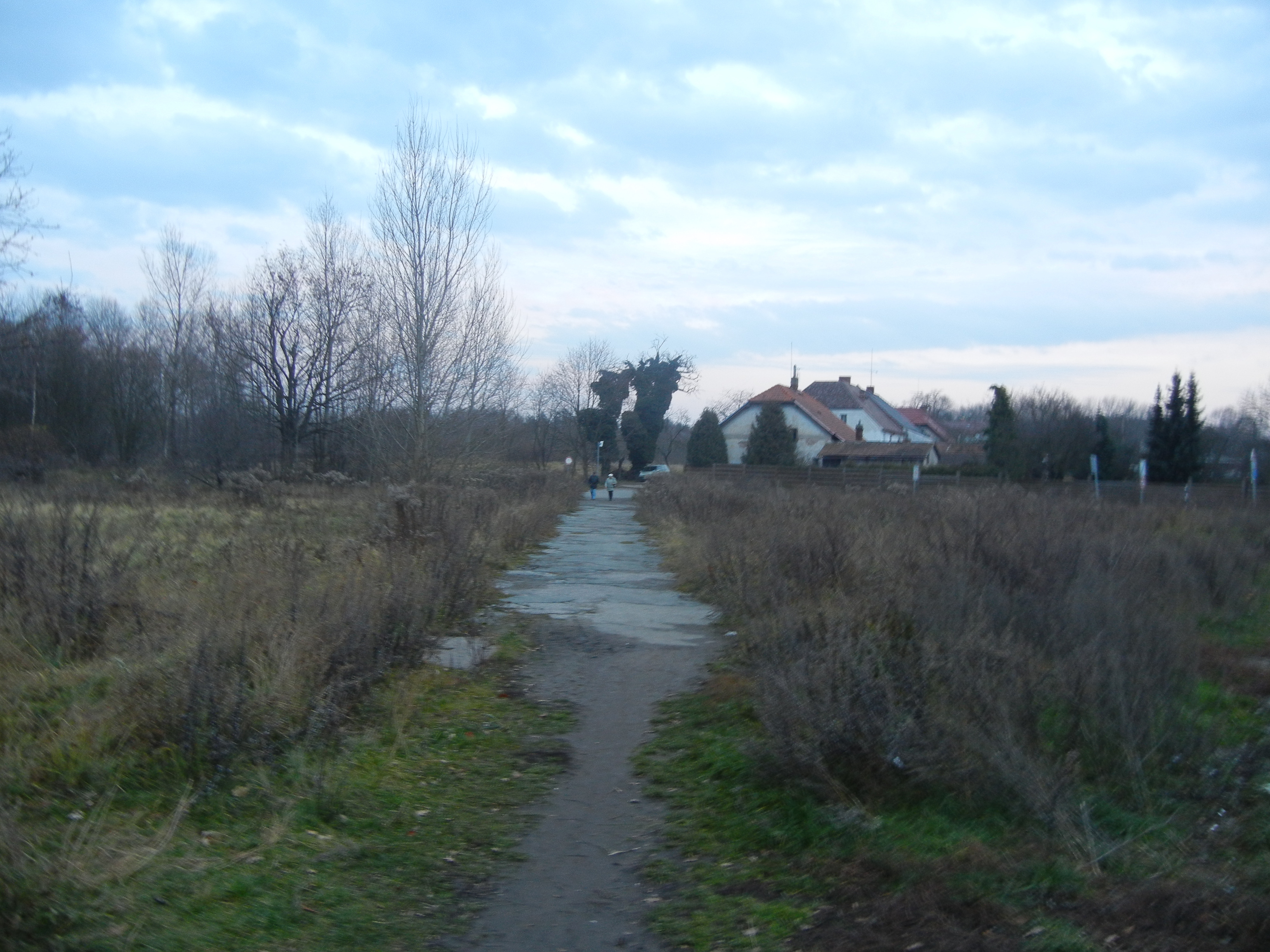 Building. Natural monument Na Plachtě 3 in Hradec Králové District, Czech Republic